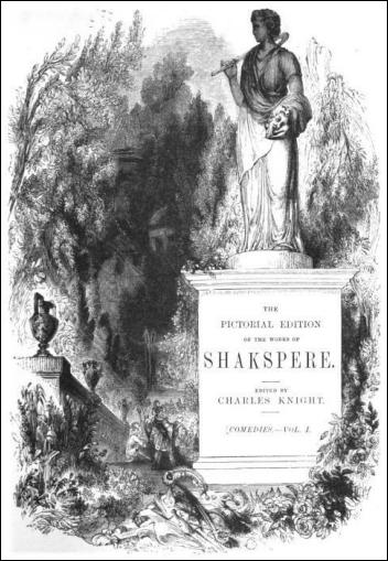 the frontispiece from Knight's Pictorial Shakespere